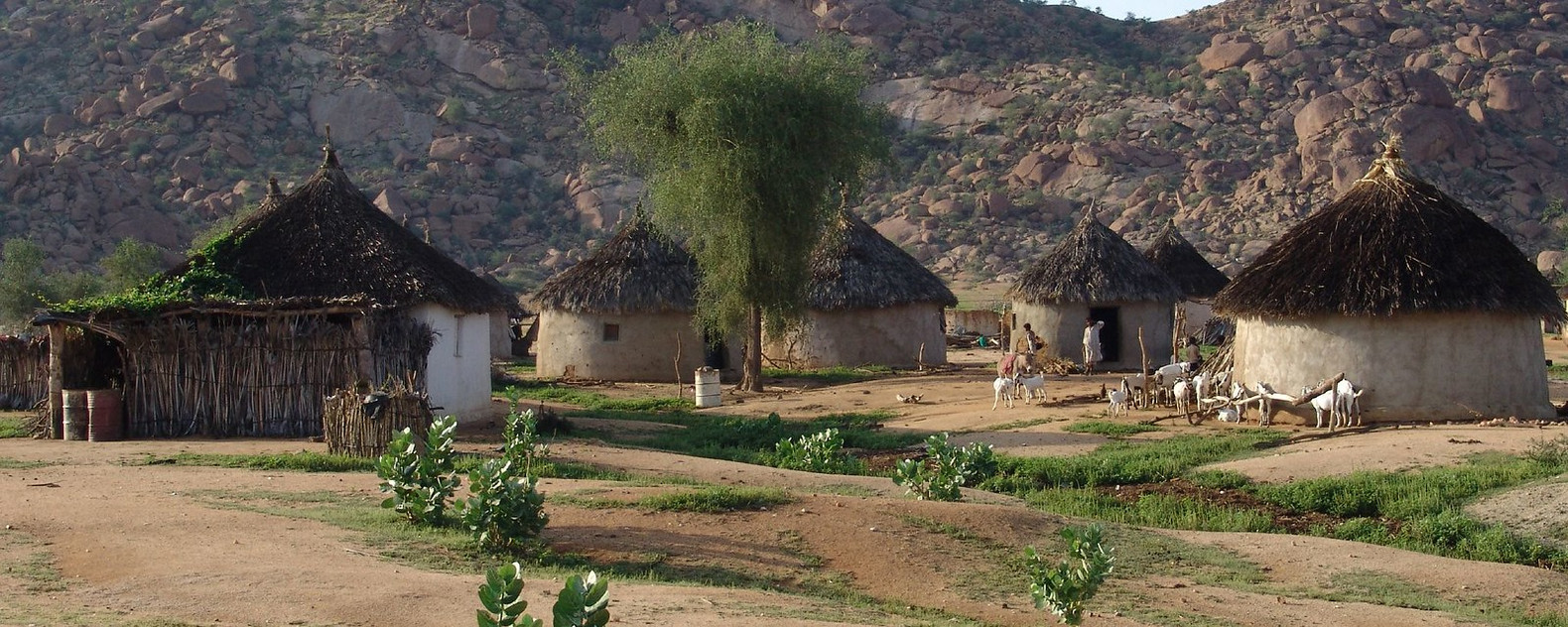 Gash Barka, Eritrea. Image taken by Charles Fred on flickr. The creator has granted GFDL licensing and permission for use in the wikimedia project.